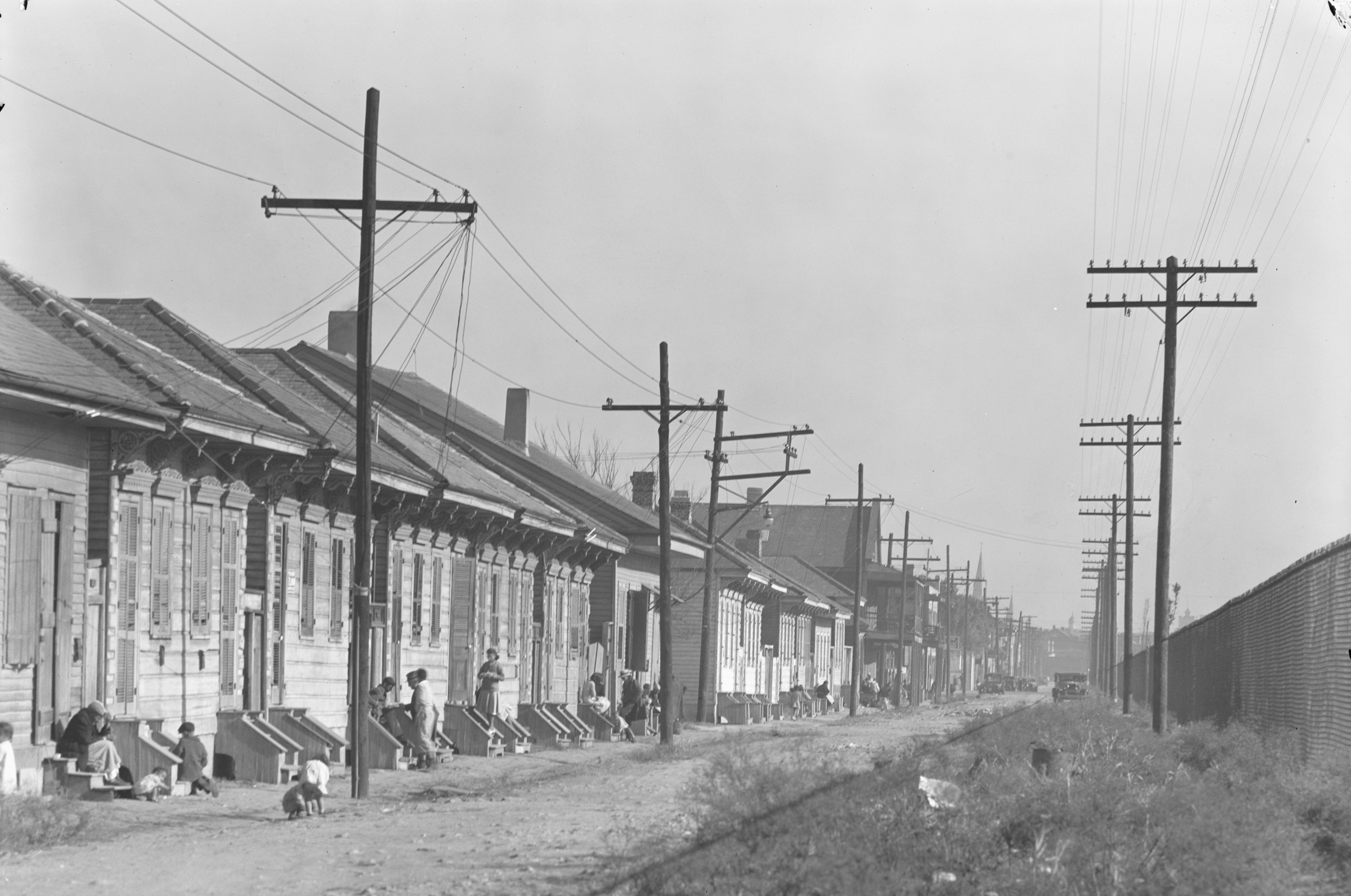 New Orleans, 1935. "New Orleans Negro street. Louisiana" Note: Appears to be the back of town section in or near the Treme neighborhood, likely at or near area soon after demolished for the construction of the Iberville Housing Projects. Photo seems to have been taken with telephoto lens which forshortens distance. 2 church steeples are seen at left. Closer one-- possibly Our Lady of Guadelupe? Further one probably St. Louis Cathedral. At end of the street in far distance the cupola of the Cabildo is visible; just to the right of the rightmost telephone pole the tower of the Jax Brewery is seen. Conti Street? Or a bit further down river, with the old Carondelet Canal behind the fence at right? Wall at right-- St. Louis Cemetery? To thread the needle between the Cabildo cupola and the Jax Brewery would require that it was taken on Lafitte Ave., probably at the intersection of Claiborne Ave. If that's correct, then the fence to the right would have been limiting access to the railroad tracks shown in this 1935 map. Another location with the same angle, would be that this photo was taken on present day Saint Peter Street near or at the intersection of Treme Street. This location could easily confirm the straight ahead shot of the Cabildo cupola.